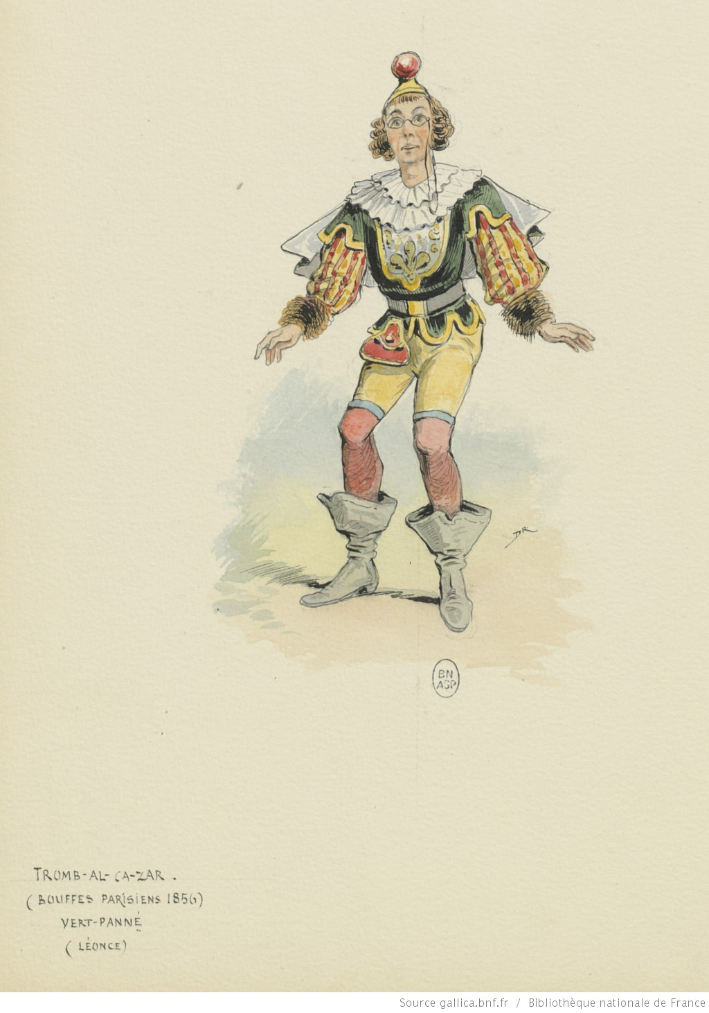 Léonce as Vert-Panné in Jacques Offenbach's Tromb-al-ca-zar, drawing by Draner